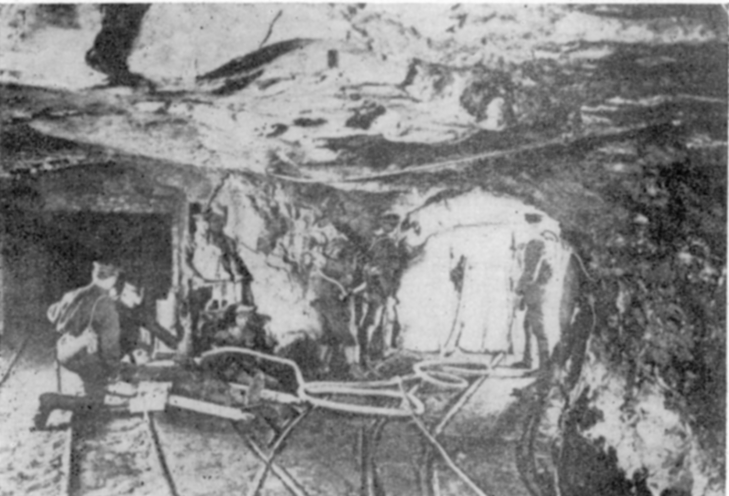 The photograph of underground galleries in Nowa Helena zinc and lead ores mine in Piekary Śląskie.